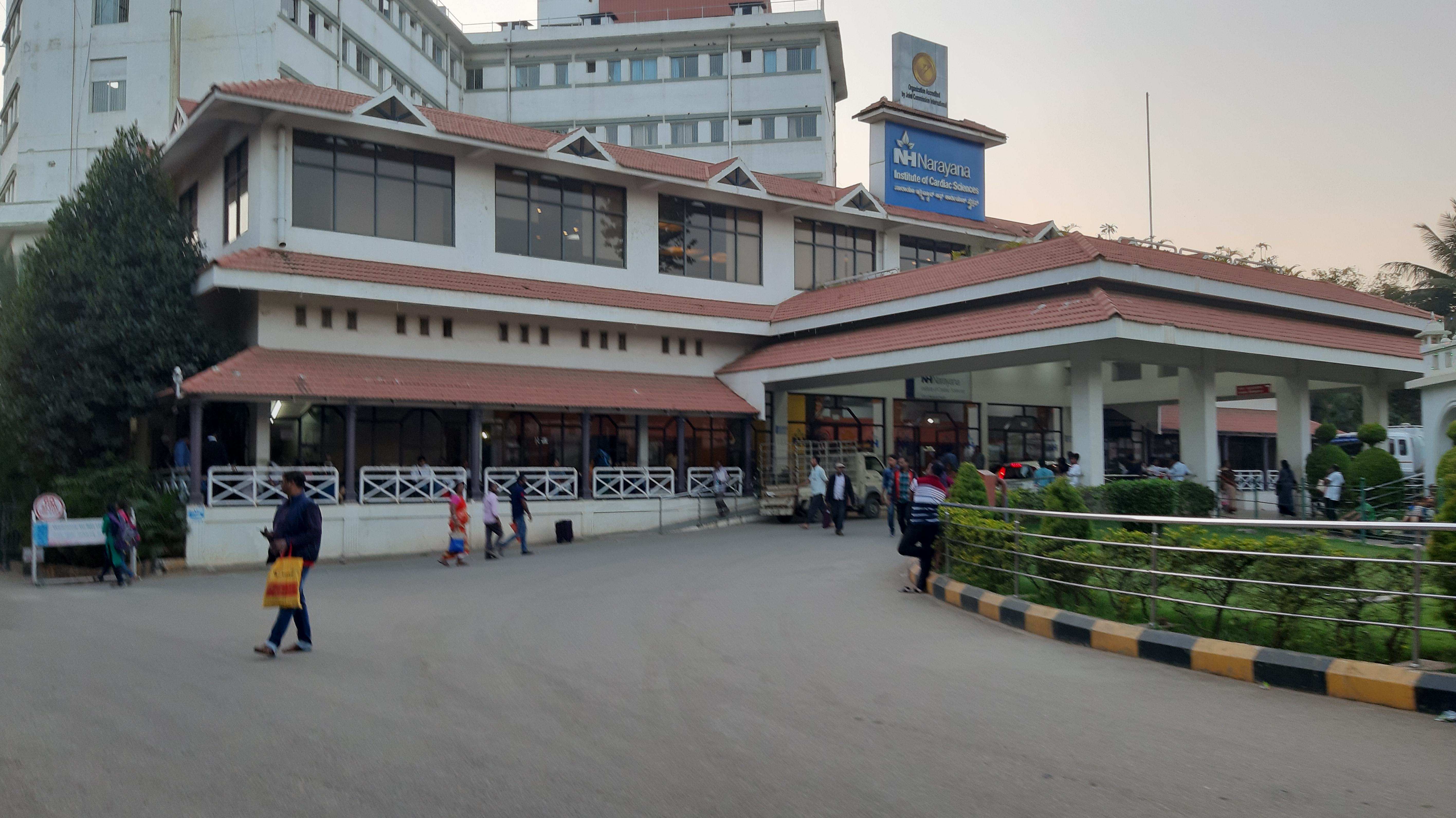 One of the most prominent cardiac hospital of the world. Also famous for Dr. Devi prasad shette.